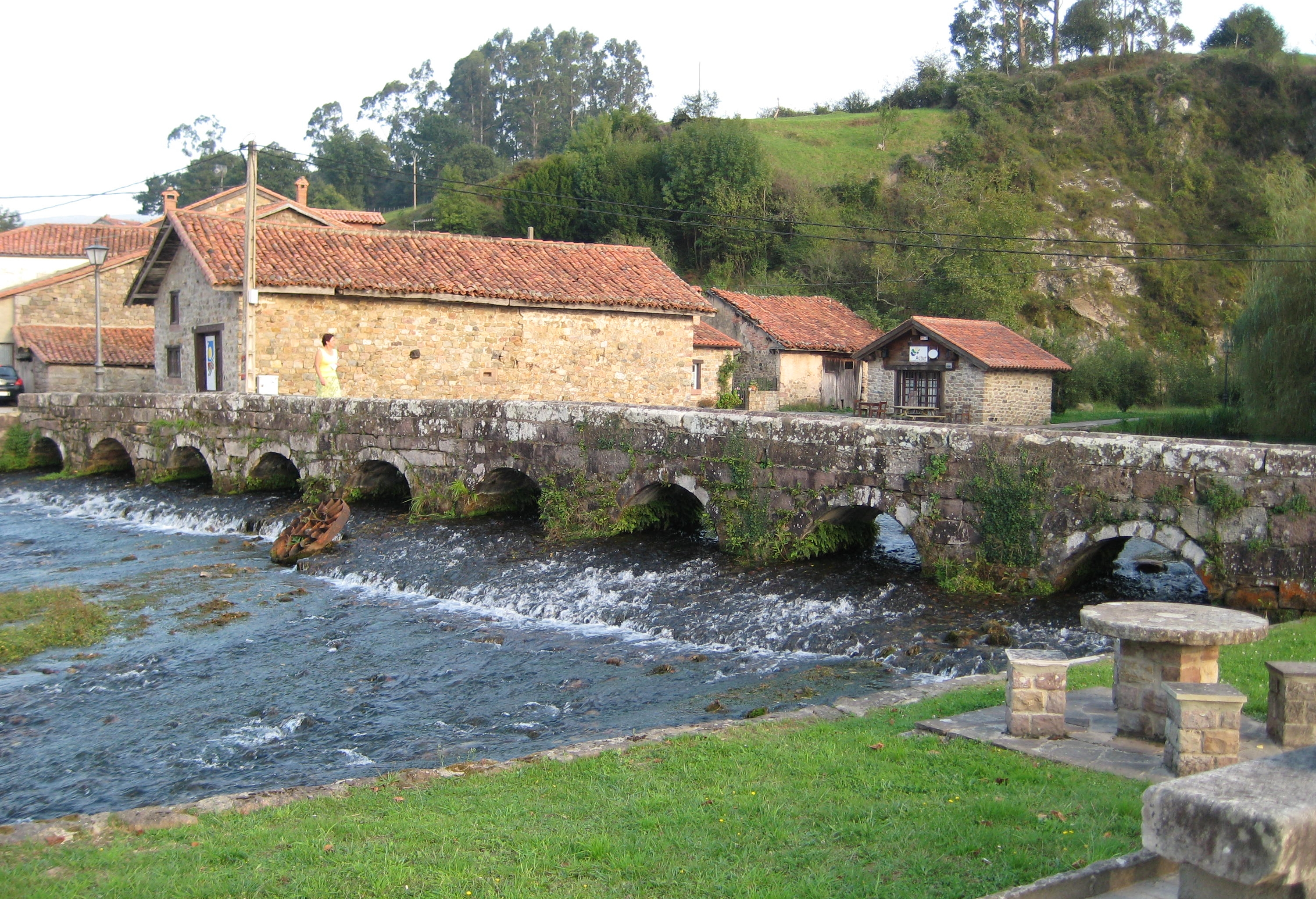 Medieval bridge in Ruente (Cantabria, Spain). It has nine very low eyes.